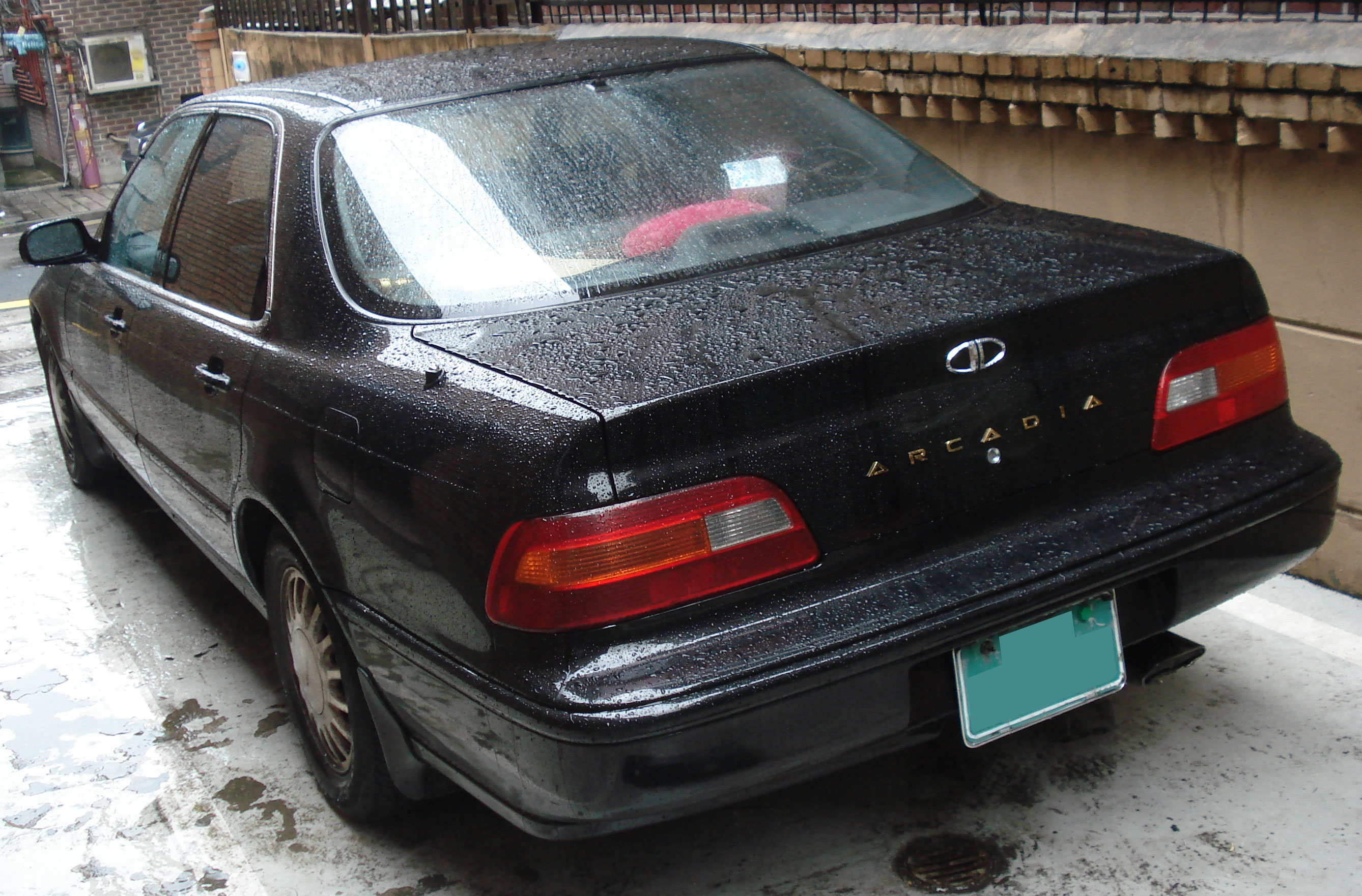 Daewoo Arcadia